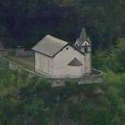 The Church of San Silvestro seen by "stoli" of MorosnaVèneto: La Ceseta de san Silvestro vista dai "stoli" de Morosna